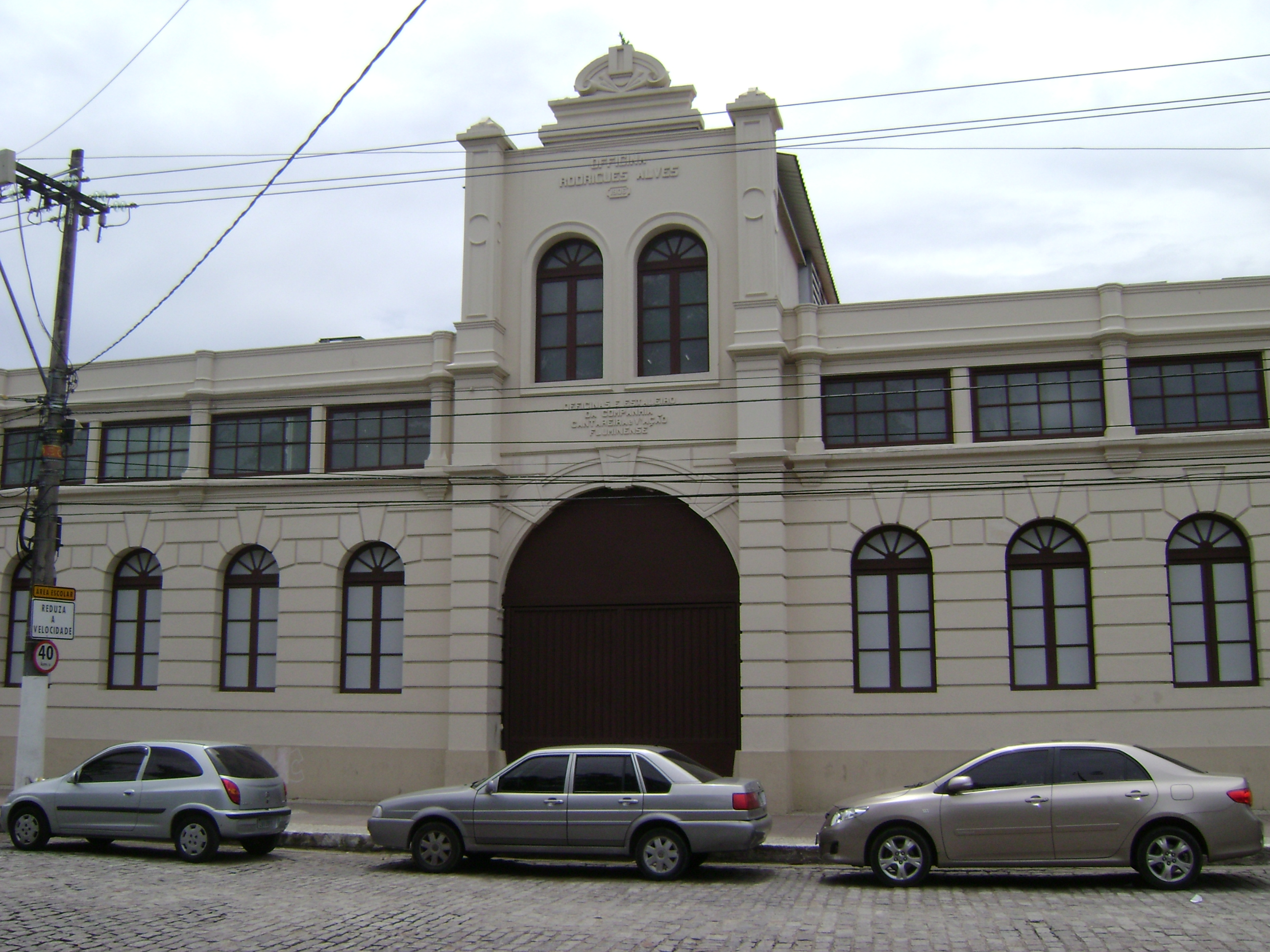 Estação Cantareira, São Domingos, Niterói, Rio de Janeiro, Brazil.